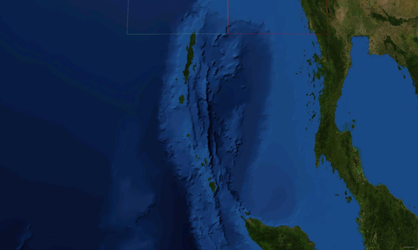 Andaman and Nicobar Islands from World Wind